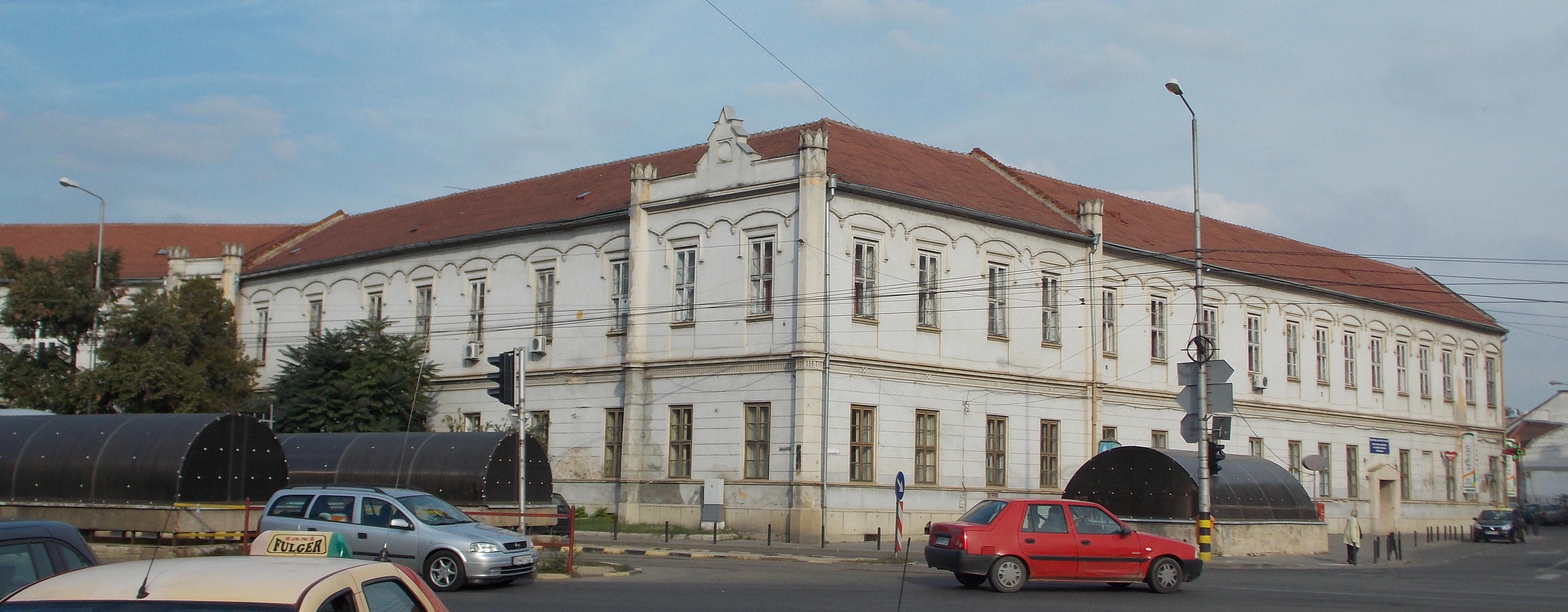 The County Hospital